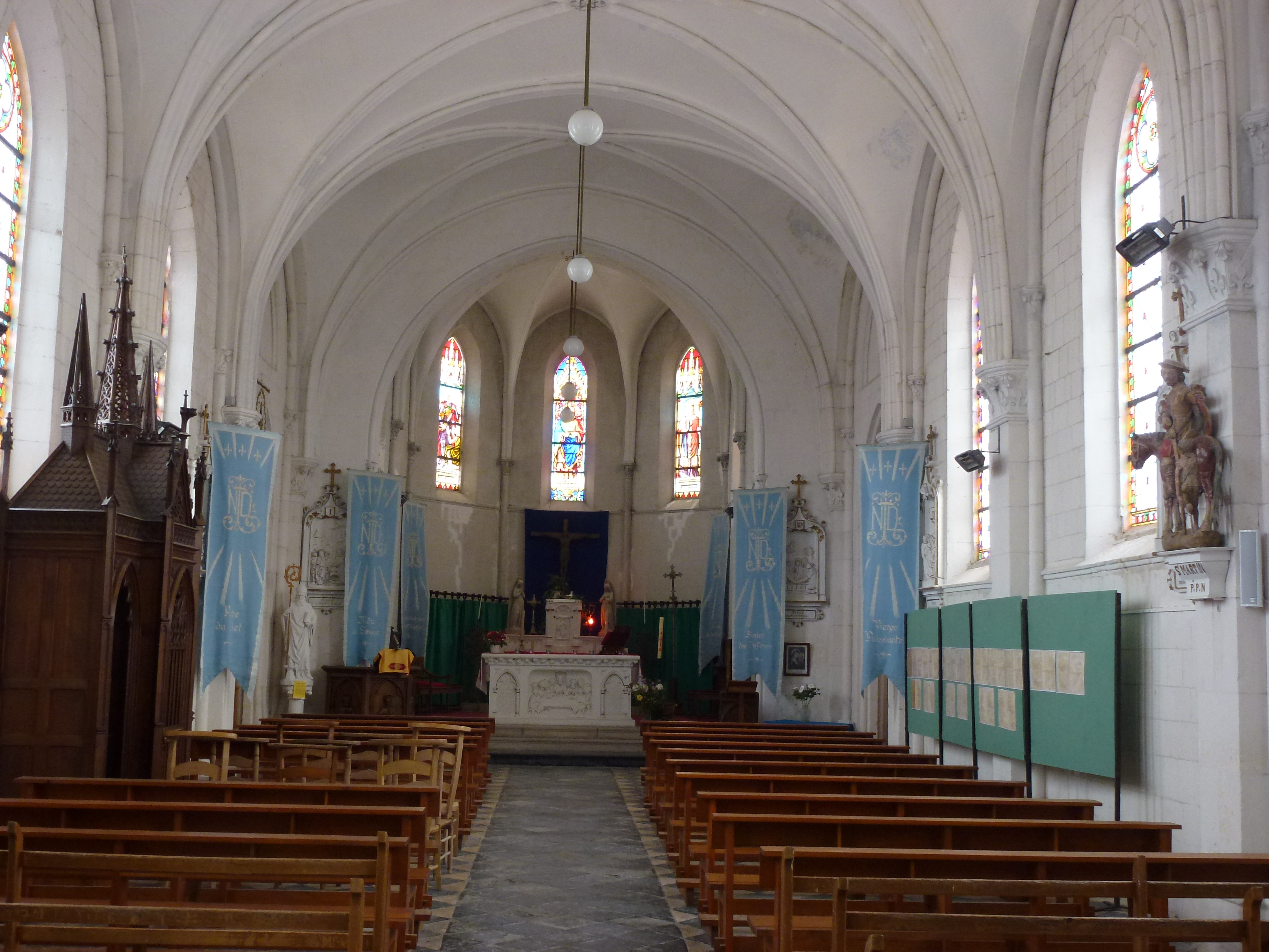 Campagne-lès-Guines (Pas-de-Calais) église Saint-Martin, intérieur